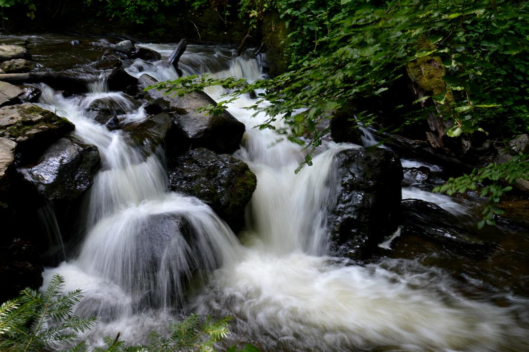 Raska Municipality - canyon Samokovska -Kopaonik